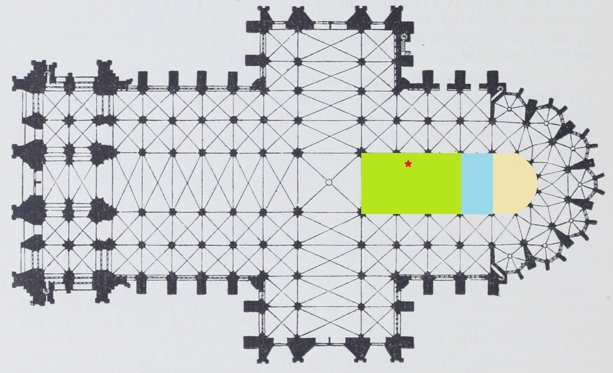 Cologne Cathedral, floor plan, with choir sections marked in green (lower choir), blue (dividing bay) and yellow (upper choir), place of "Judensau" carving marked in red